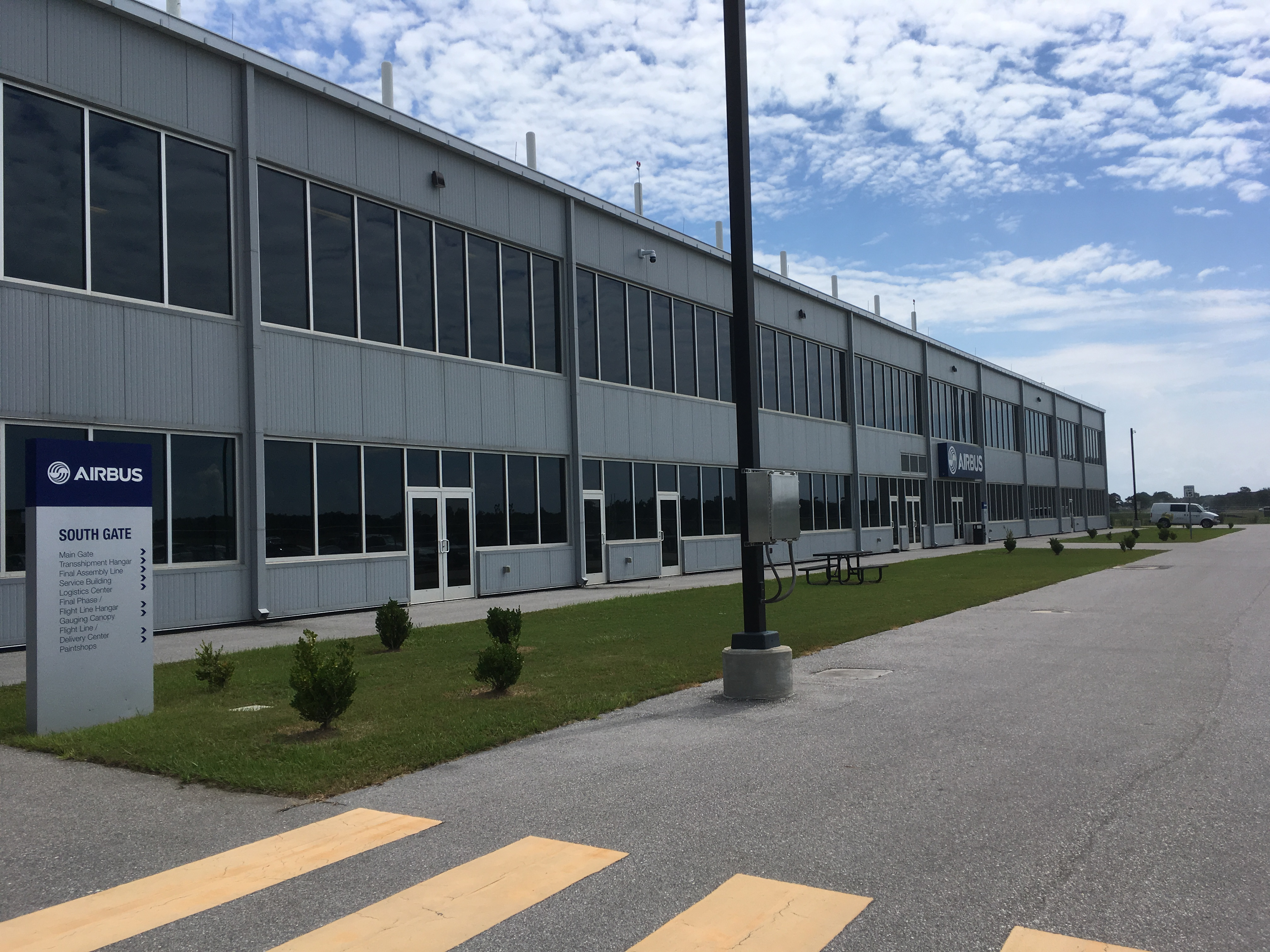 Airbus Mobile plant south office building in July 2018.